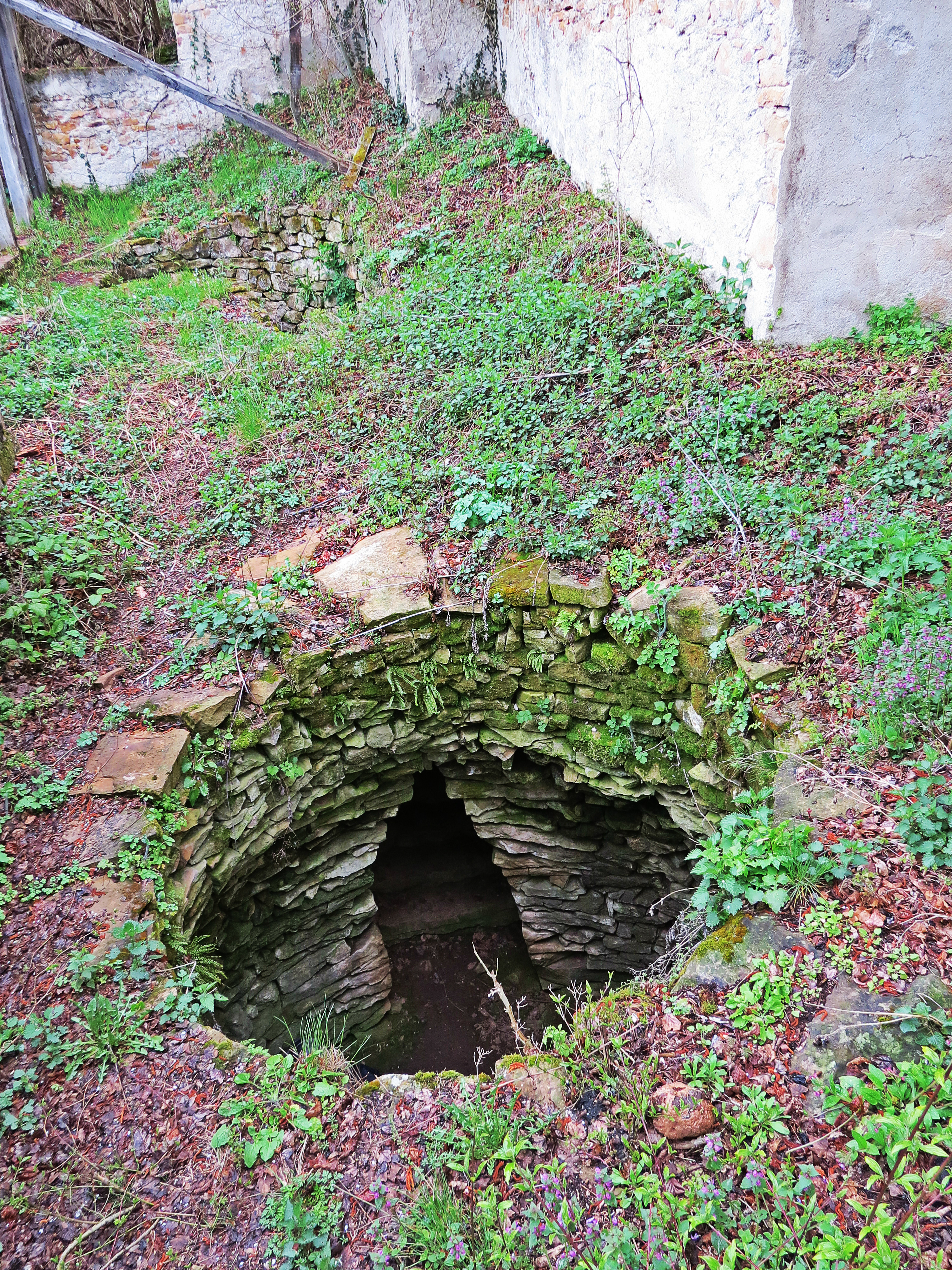 Sacred Well Garlo BG